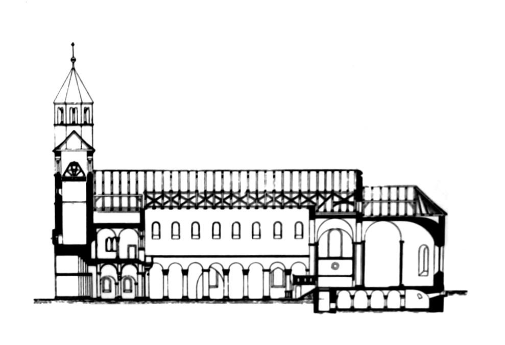 Abbeychurch in Gandersheim, Germany. Longitudinal section, taken from a public display.